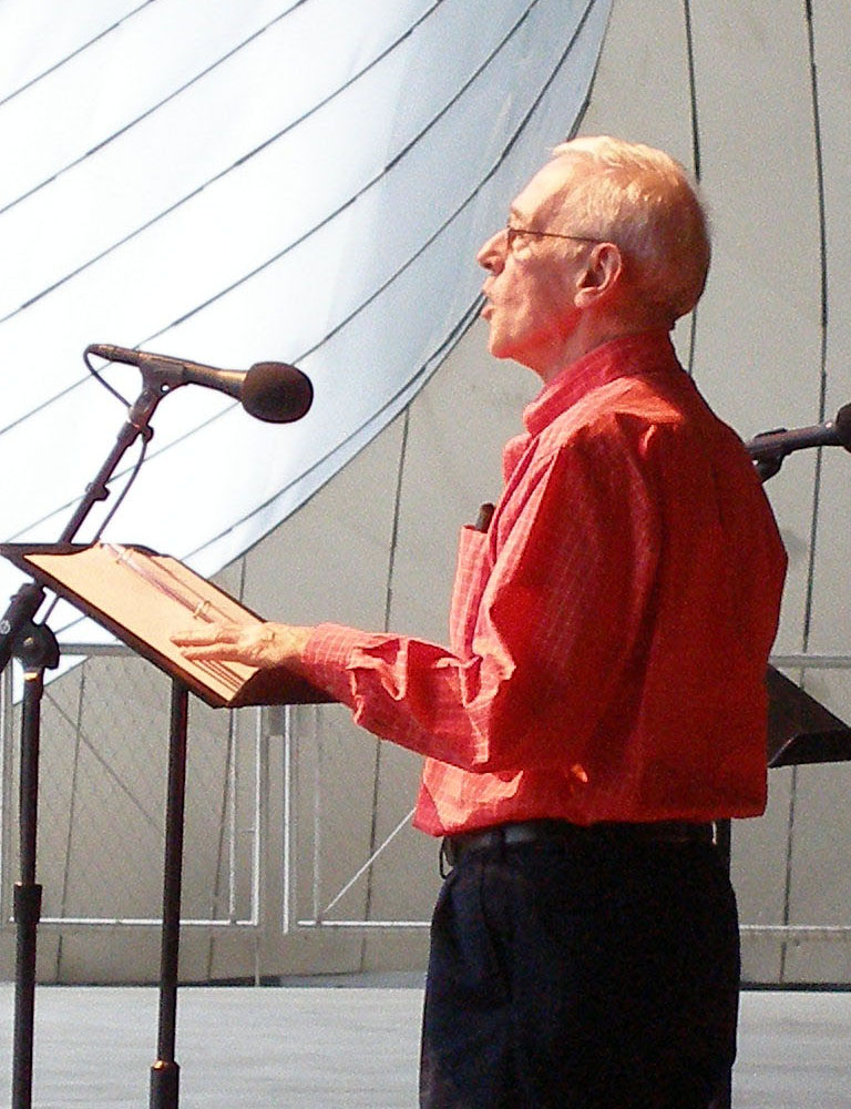 John Mahoney.